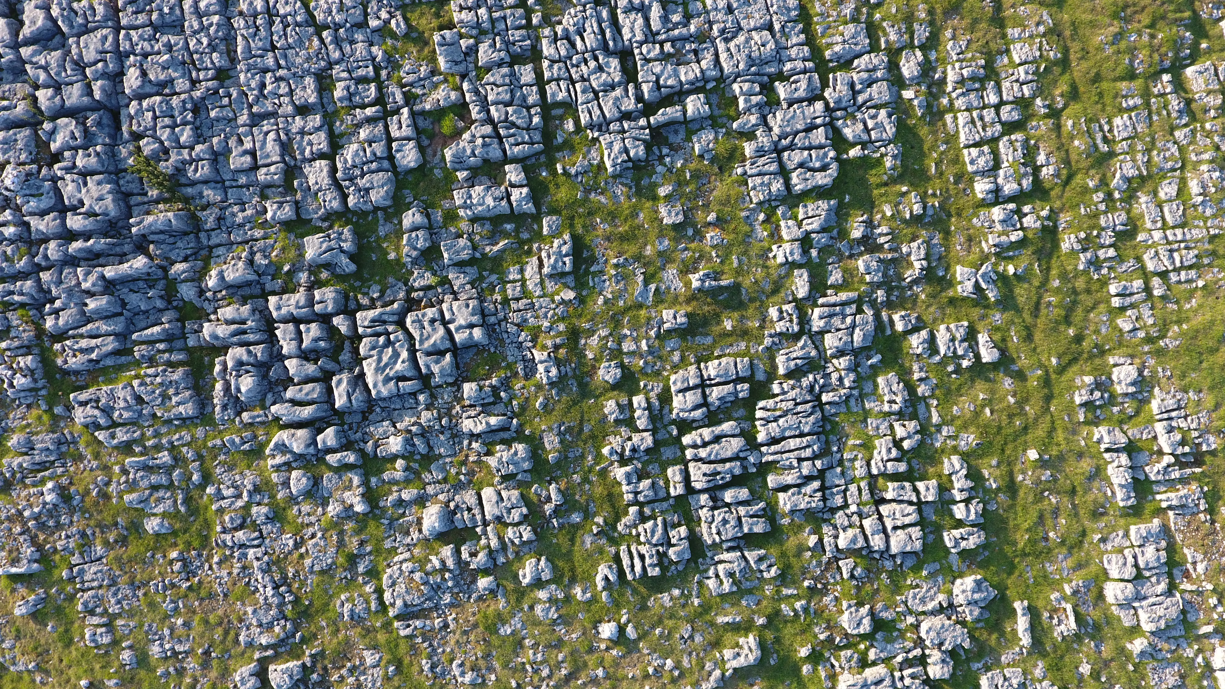 This is a surface rock formation typical of Karst limestone landscapes